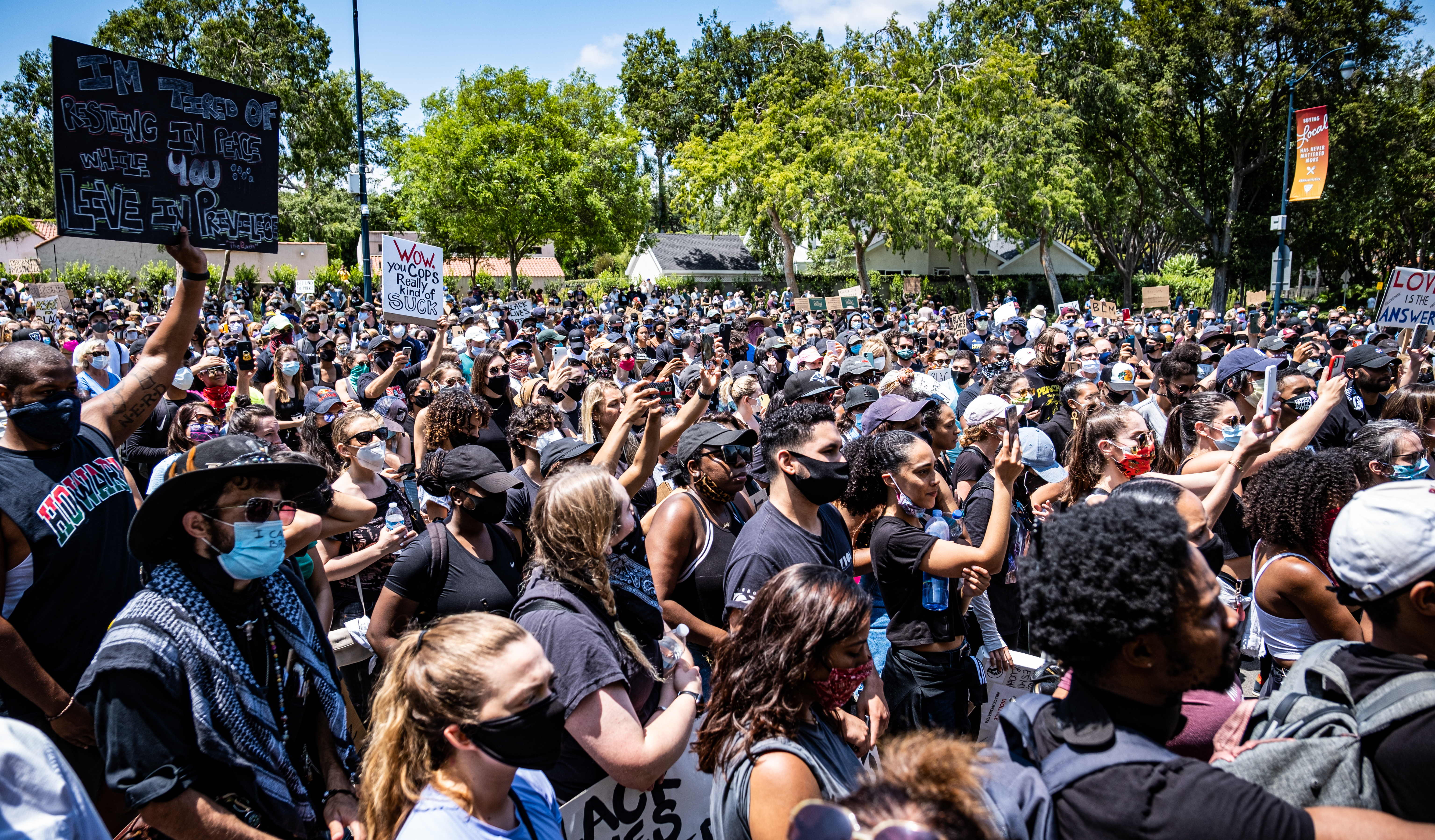 Black Lives Matter - Century City Protest - June 6, 2020